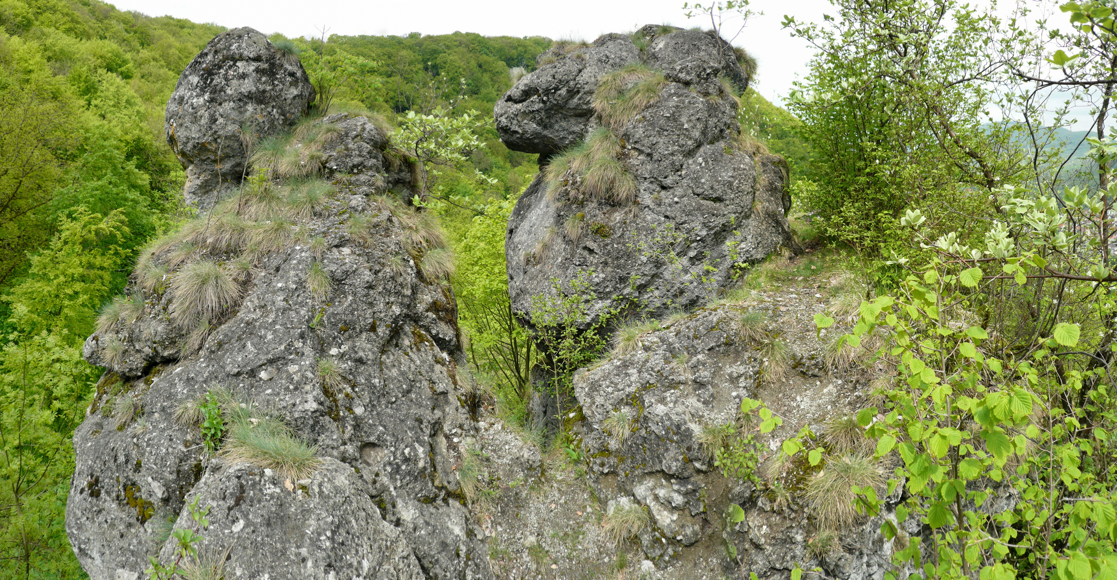 Top of Konradfels, Middle Schwäbische Alb. Compacted, cemented volcanic rock, rest of a volcanic pipe of a phreatomagmatic volcano of the “Urach-Kirchheimer Vulkangebiet” (german wikipedia: “Schwäbischer Vulkan”). The not gray fragments within the mass of tuff are non volcanic Xenolithes, mostly White Jurassic of the Alb’s plateau.